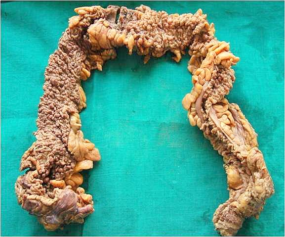 Cut open section of colectomy specimen showing hundreds of small polyps throughout the entire colon